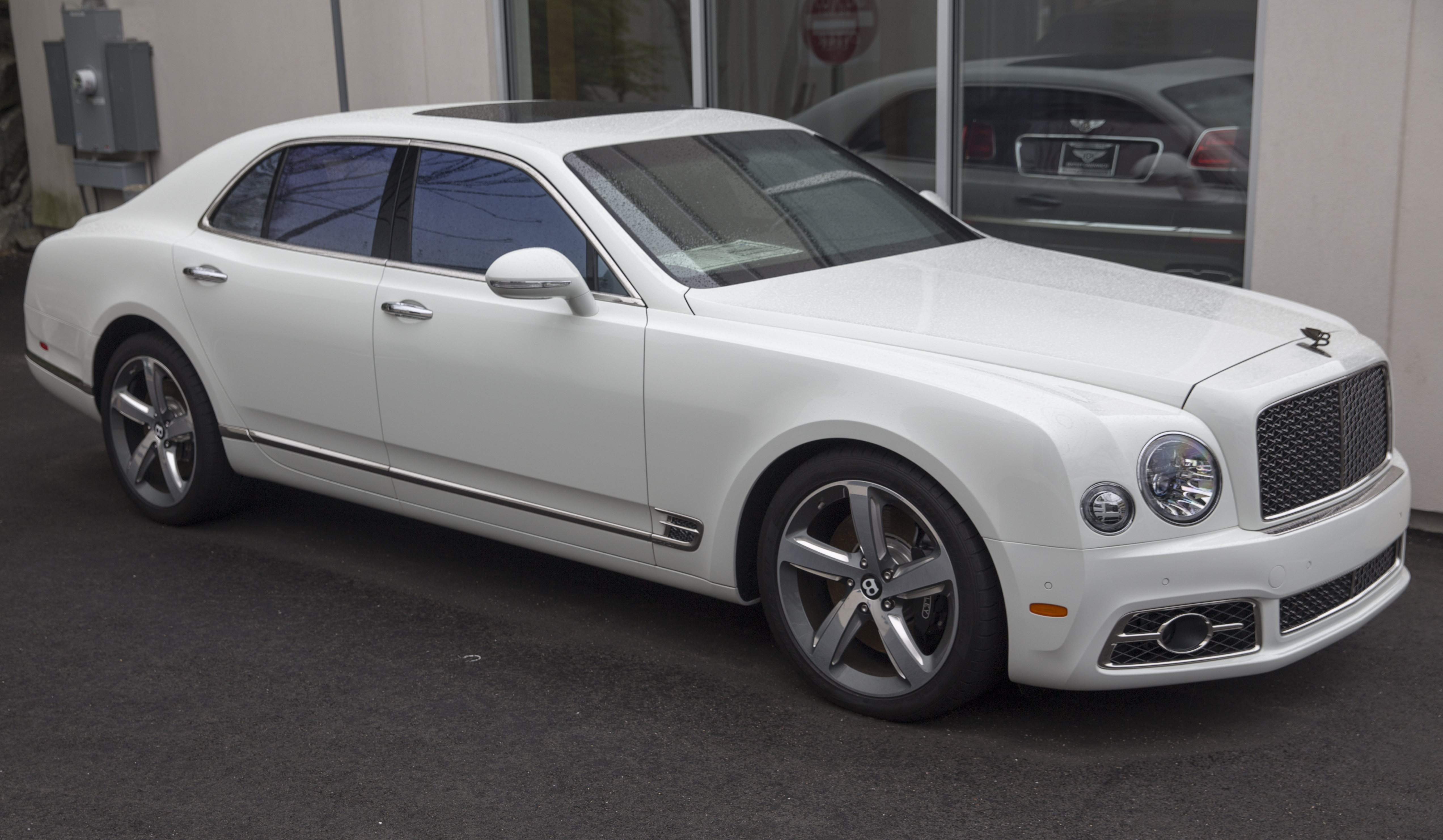 A 2018 Bentley Mulsanne Speed in Glacier White with Hotspur interior. For sale as pre-owned, but with a mere 150 miles on the clock.